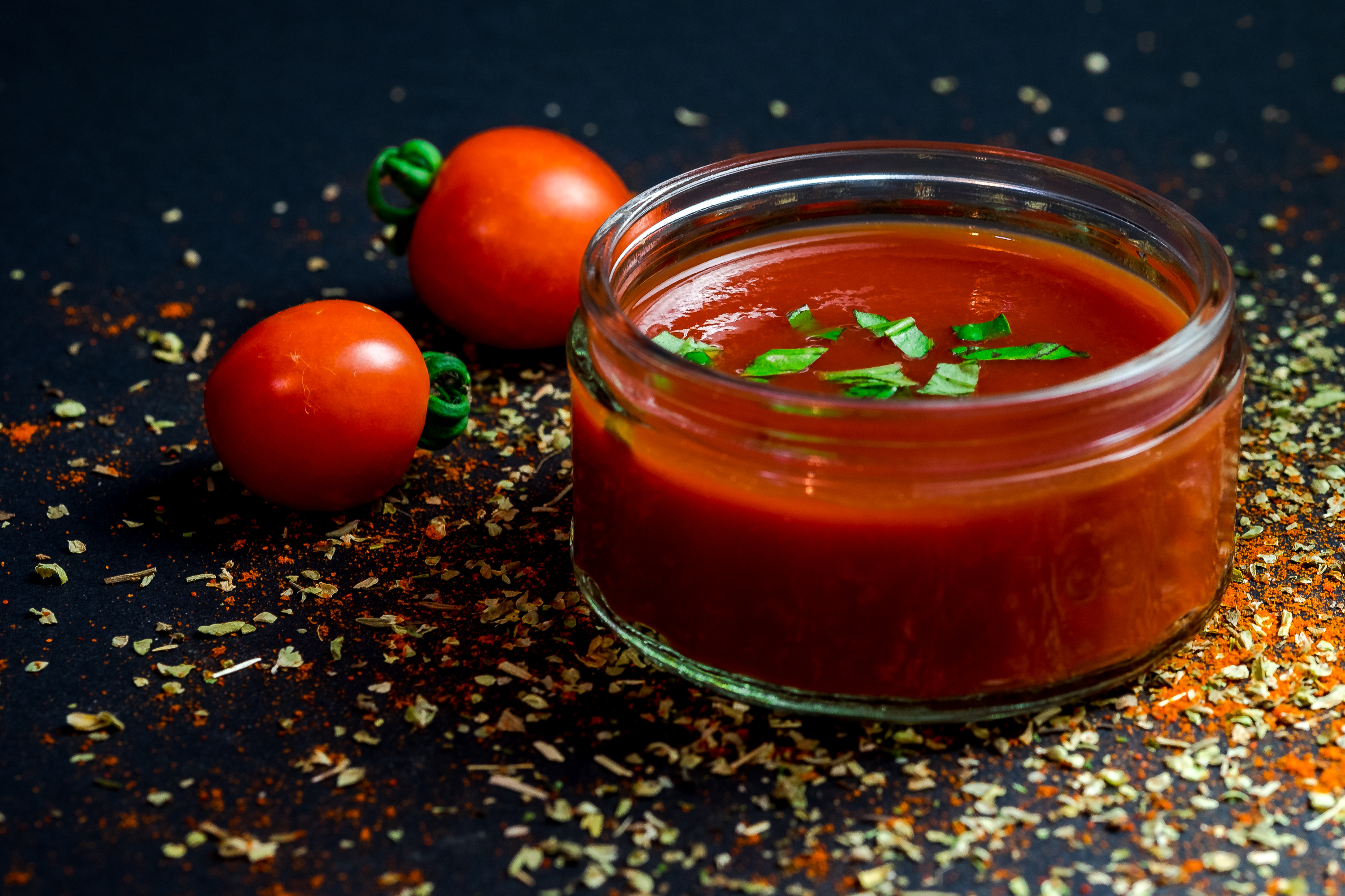 Dennis Klein 2016-08-29